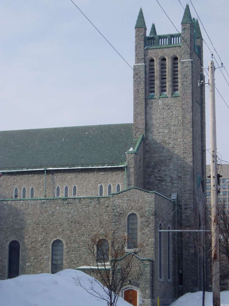 Taken by SimonP in February 2005